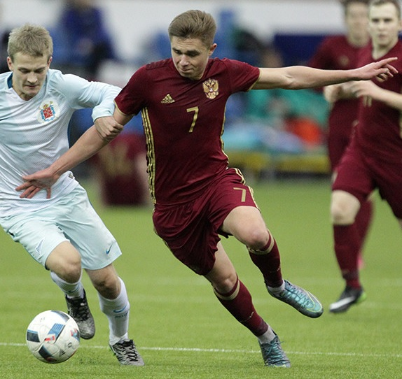 Dmitri Tsypchenko in action for Russia U-18 in a Granatkin Memorial game against St. Petersburg U-18.